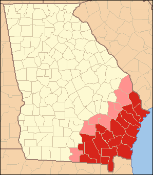 Georgia's Lower Coastal Plain highlighted on a county map.